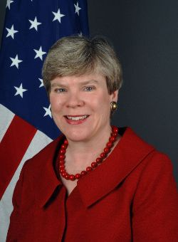 Official portrait of United States Assistant Secretary of State for Verification, Compliance, and Implementation Rose Gottemoeller.